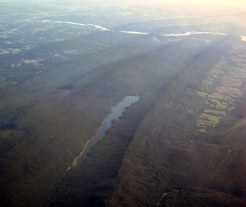 Oblique air photo of DeHart Reservoir, Clark Creek, Pennsylvania, facing southwest, with Susquehanna River in background, taken 27 August 2010.